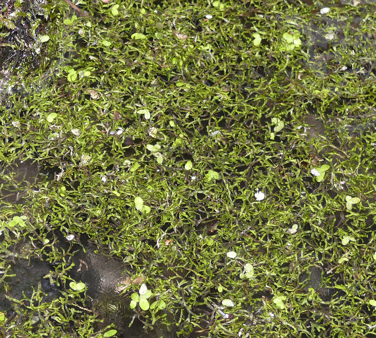 Riccia fluitans and a few Lemna minor, Hohenlohe, Germany